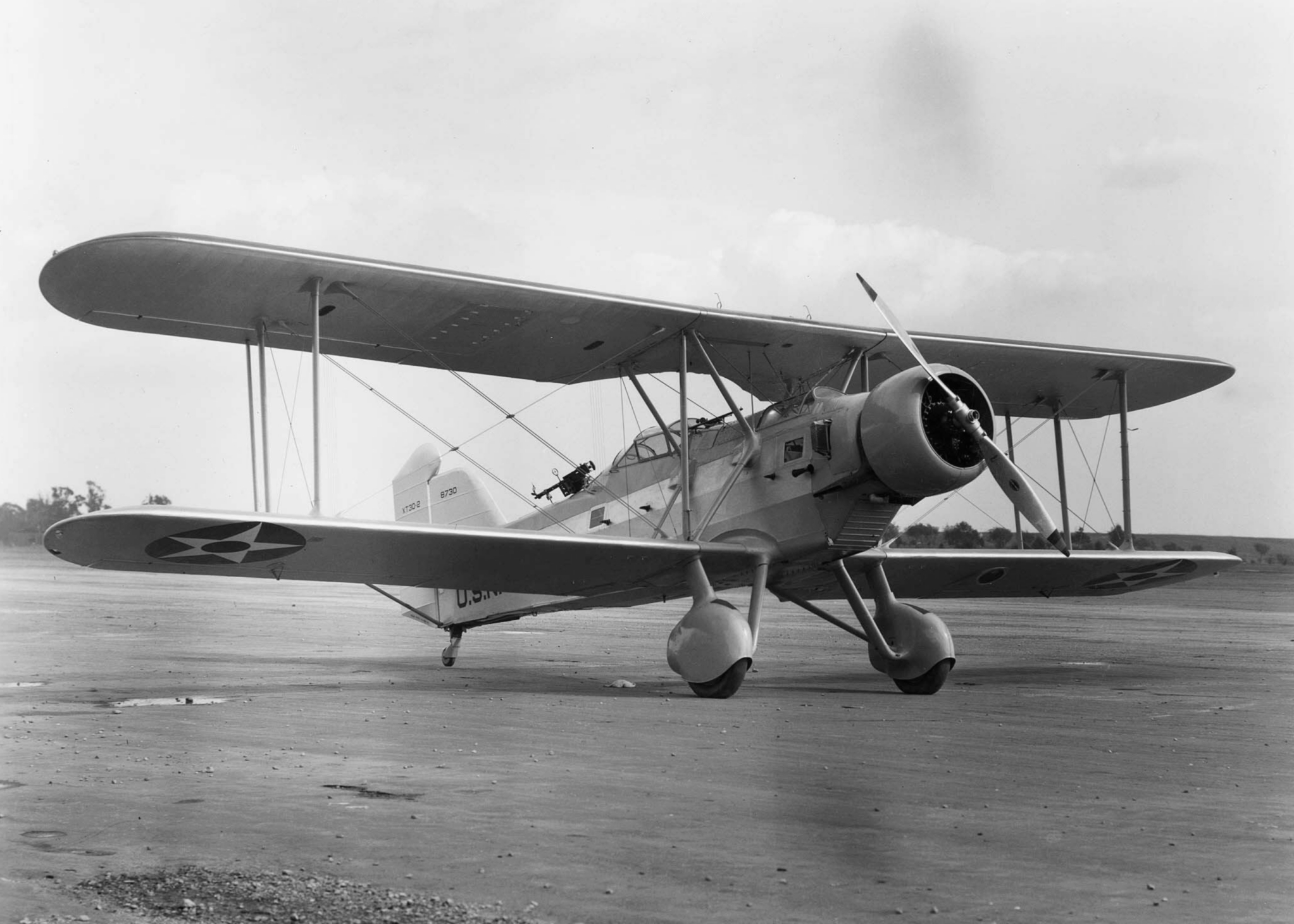 A U.S. Navy Douglas XT3D-2 (BuNo 8730) in January 1933. The Douglas T3D was ordered as a successor for the Martin T4M and Great Lakes TG torpedo-bombers. It featured folding wings and a forward-looking window in the fuselage to assist in the aiming of ordnance. It was delivered to the U.S. Navy in 1931, but flight testing revealed inadequate performance, particularly with the Pratt & Whitney Hornet S2B1-G engine. Subsequently, the aircraft was equipped with a Pratt & Whitney XR-1830-54 and enclosed cockpits. The aircraft was then re-designated XT3D-2 and delivered to the U.S. Navy in 1933, by which time the service had shifted its attention to dive-bombing. The aircraft remained in use as an engine test bed until 1941, at which time it was stricken from the U.S. Navy inventory.